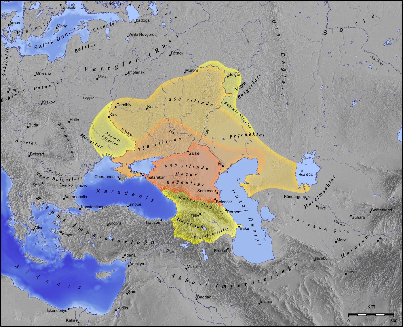 Map of the Khazars. Uploaded from German WP